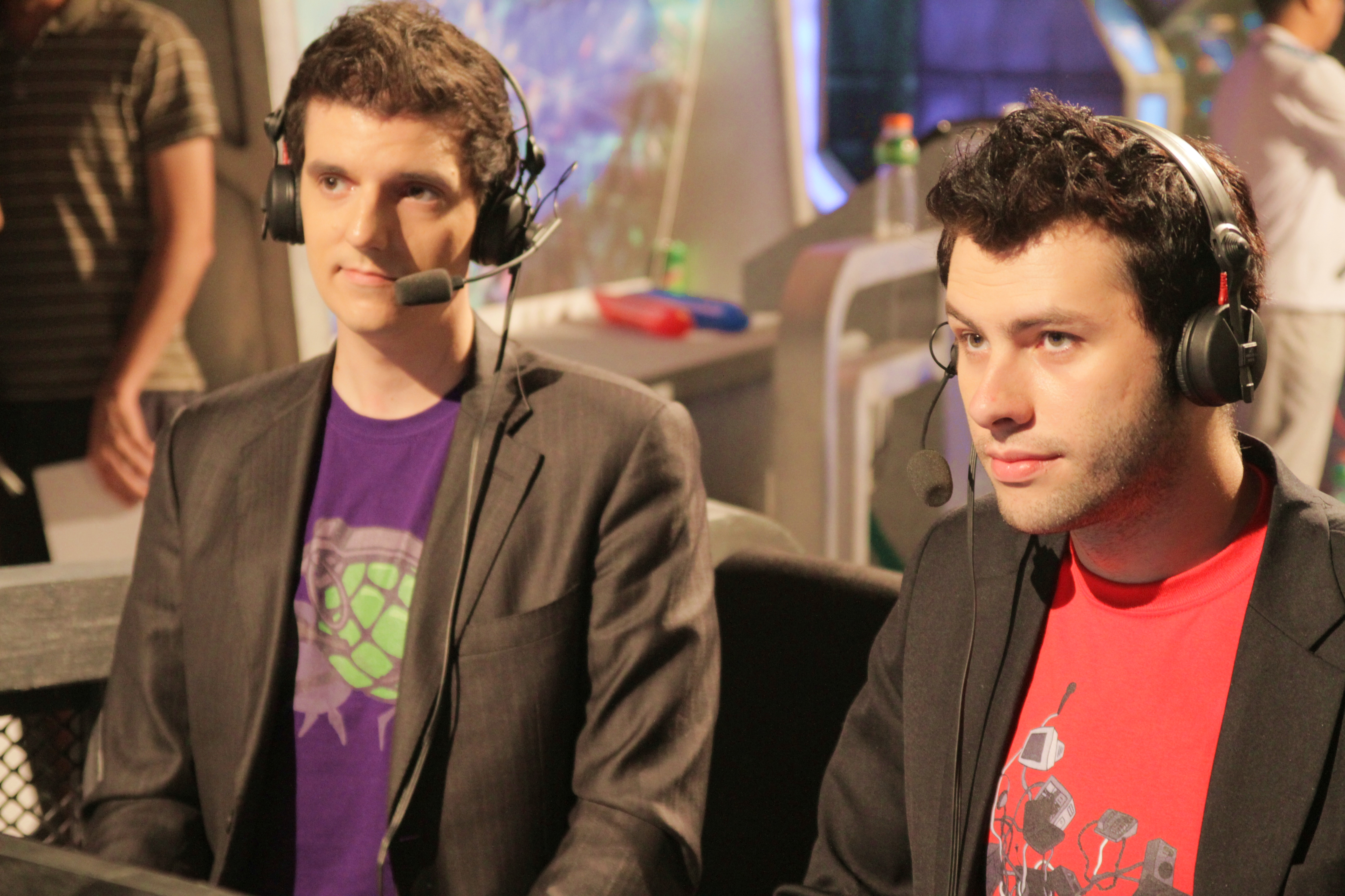 In Korea, the StarCraft matches played at the GOMTV studio are both televised and streamed online in Korean. However, there is also an English stream available online, and pictured here are the commentators for the English stream, "Tastless" (on the right) and "Artosis" (on the left). The GOMTV Studio in Seoul is where the StarCraft Global Star League (GSL) tournaments are broadcasted.